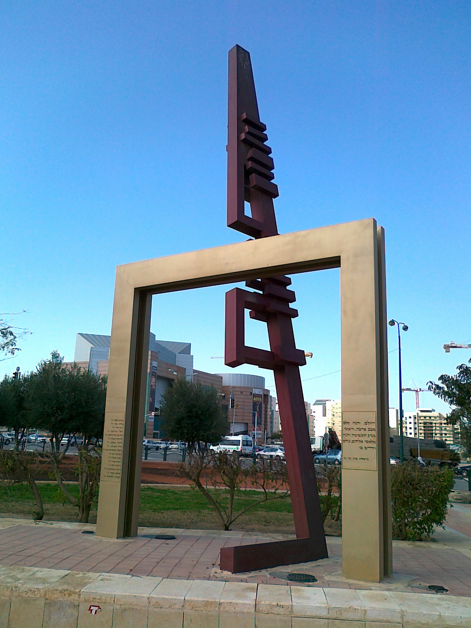 Monument to the sixteen civilians murdered by suicide bombers of Hamas terrorism, in the city of Beer Sheva, Israel, August 31, 2004